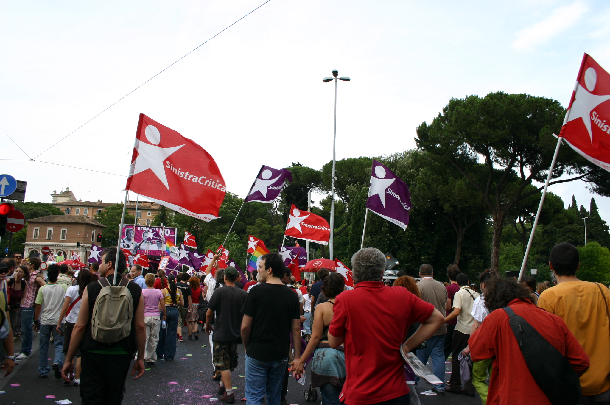 Sinistra critica at the National Gay Pride march in Rome, on June 16 2007. Picture by Giovanni Dall'Orto.